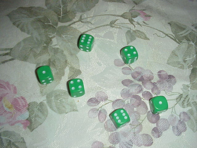 I took this picture in my kitchen, with my camera, of my own dice.